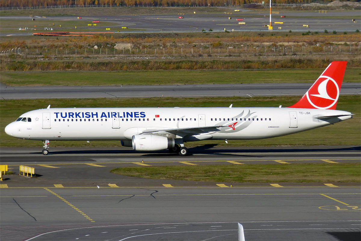 Turkish Airlines, TC-JSK, Airbus A321-231